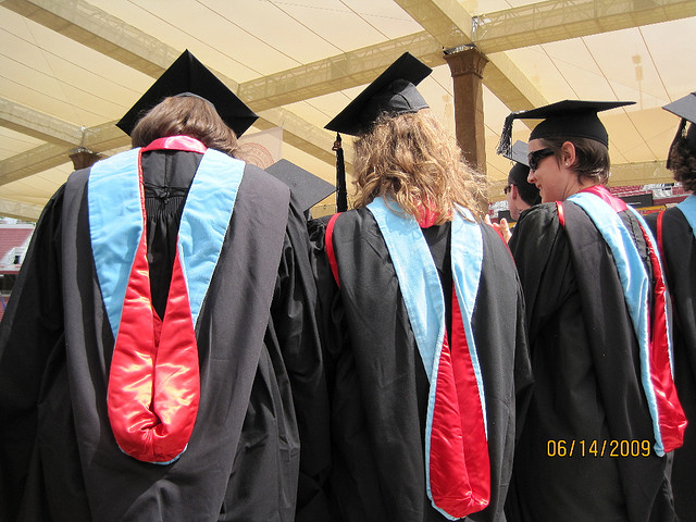 Three recent graduates of Stanford University in Stanford, California displaying their master's degree hoods.